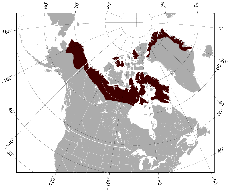 Geographical distribution of the Northern Collared Lemming Dicrostonyx groenlandicus. The map was created using the Generic Mapping Tools, GMT, version 5.1.1.